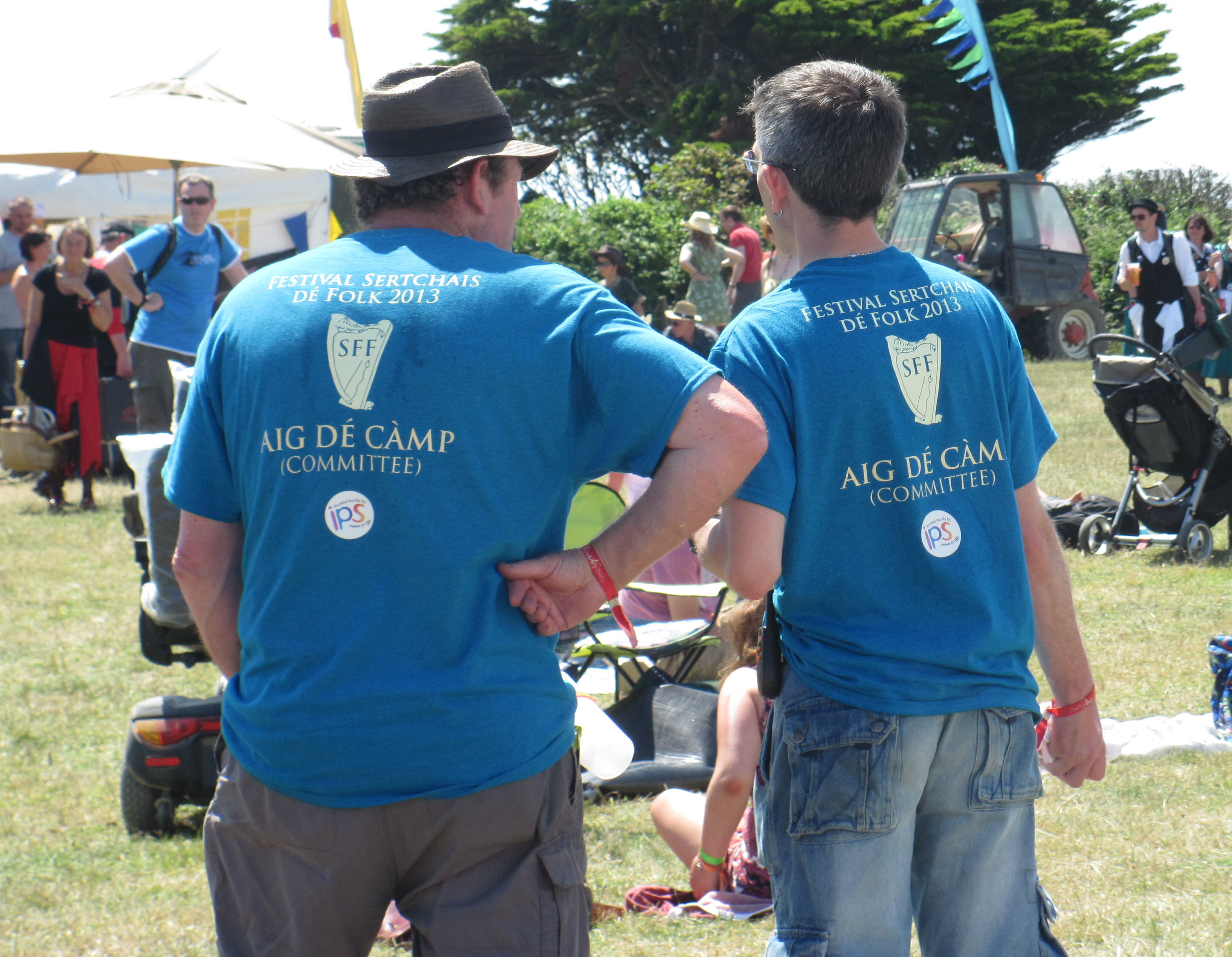 Sark Folk Festival 2013